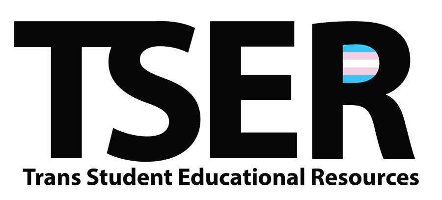 Logo of organization Trans Student Educational Resources